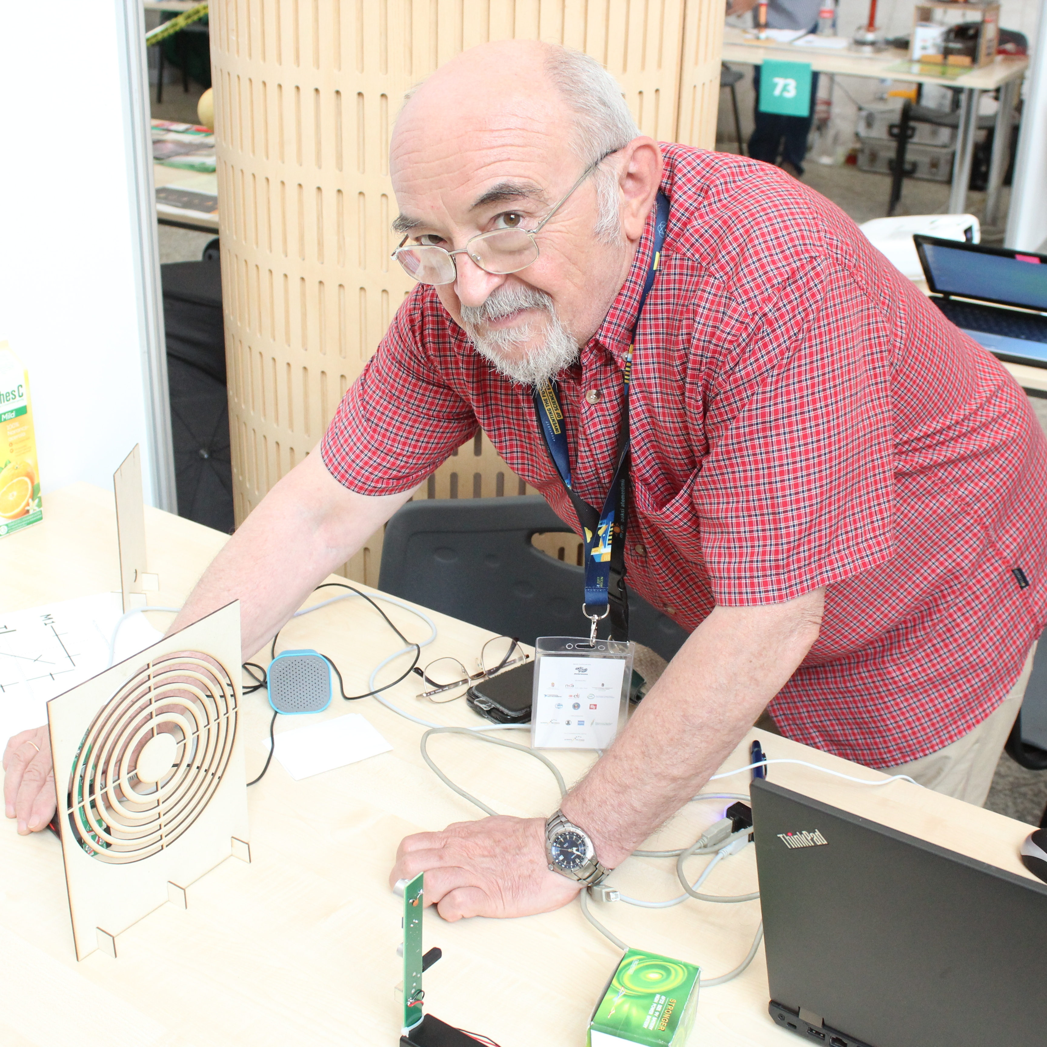 Károly Piláth, hungarian physics teacher on Science on Stage festival (Debrecen, Hungary)